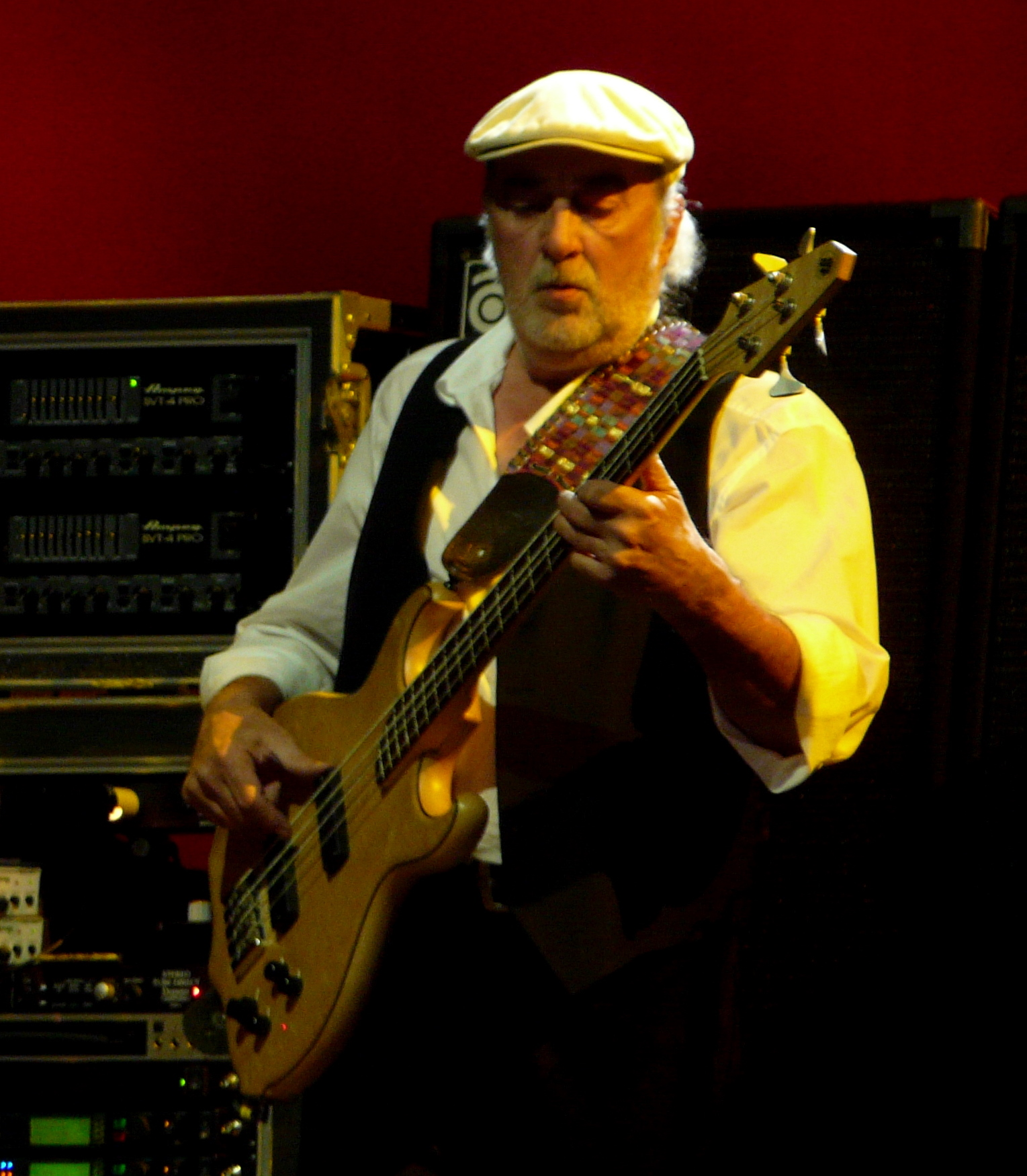 JOHN MCVIE With Fleetwood Mac on March 3, 2009 in St. Paul, MN at the Xcel Energy Center. Photo by Matt Becker, Use without citation is prohibited by law.